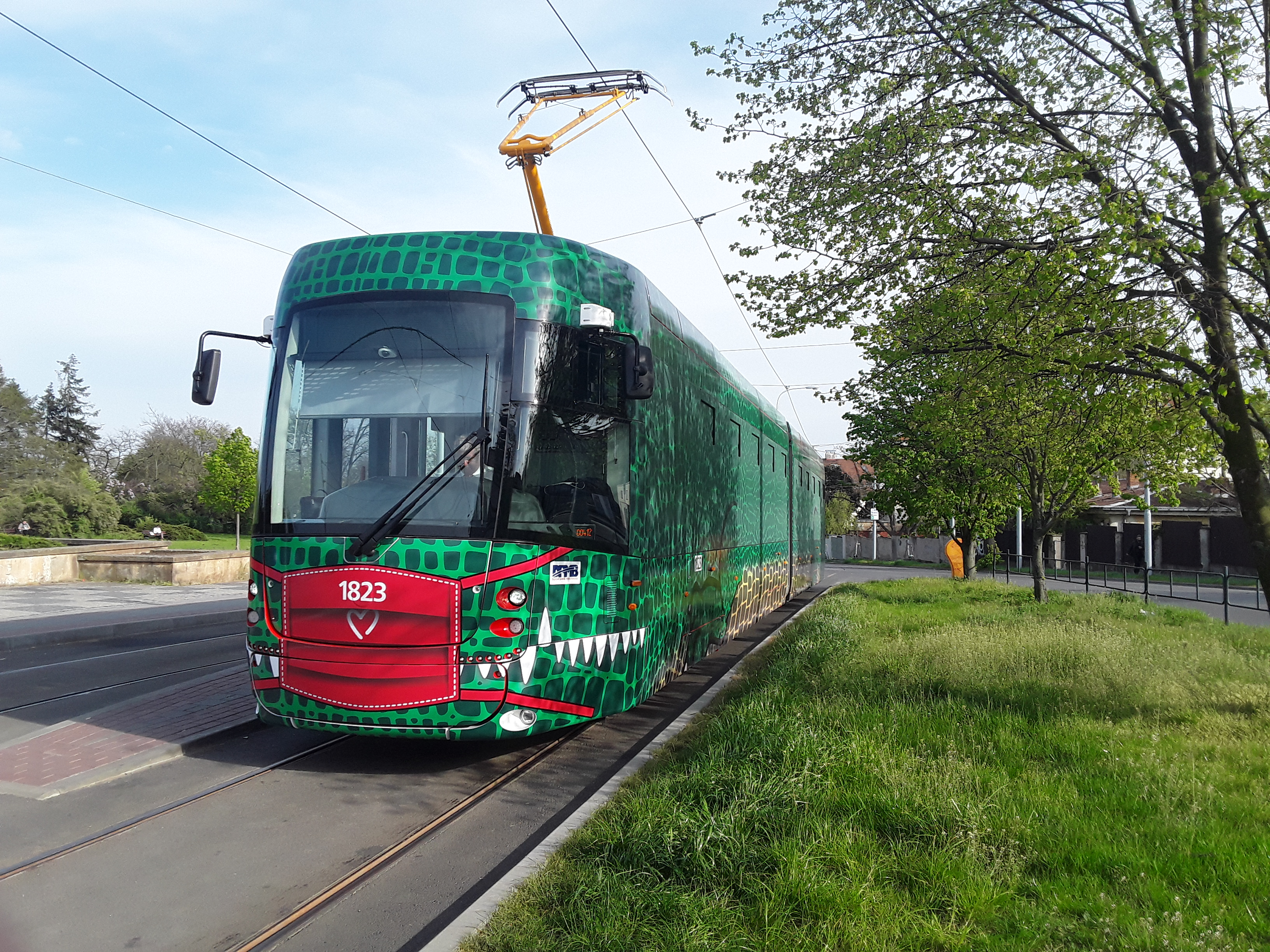 Tramvaj EVO-2 evidenčního čísla:1823. V Brně první den v provozu (24.dubna 2020 v 17:15) na Smyčce Náměstí Míru.